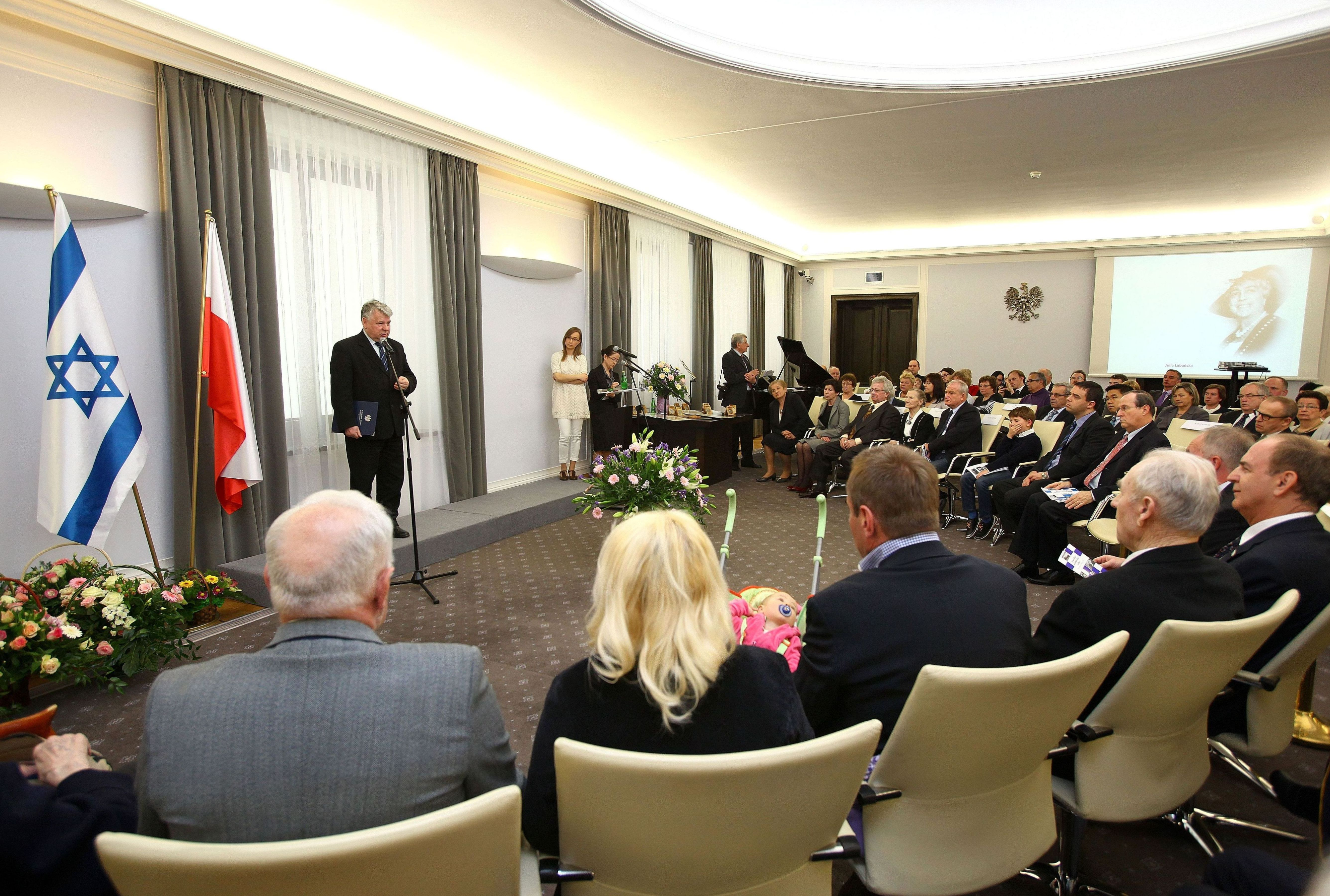 Marshal Bogdan Borusewicz during a Righteous Among the Nations awarding ceremony in the Polish Senate